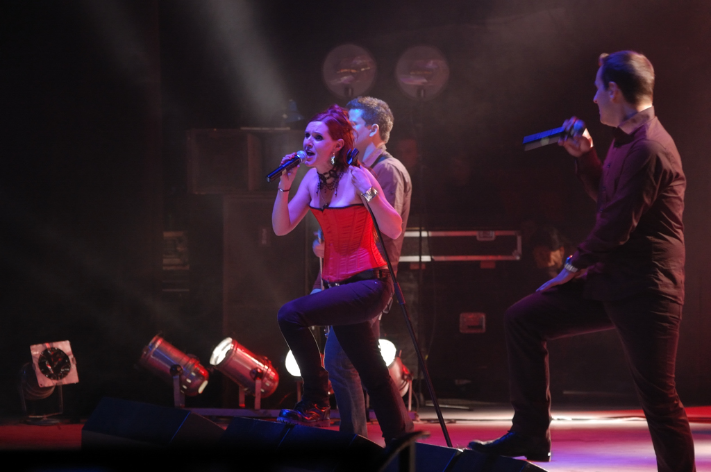 Theatre of Tragedy at Teatro Teletón, Santiago, Chile.